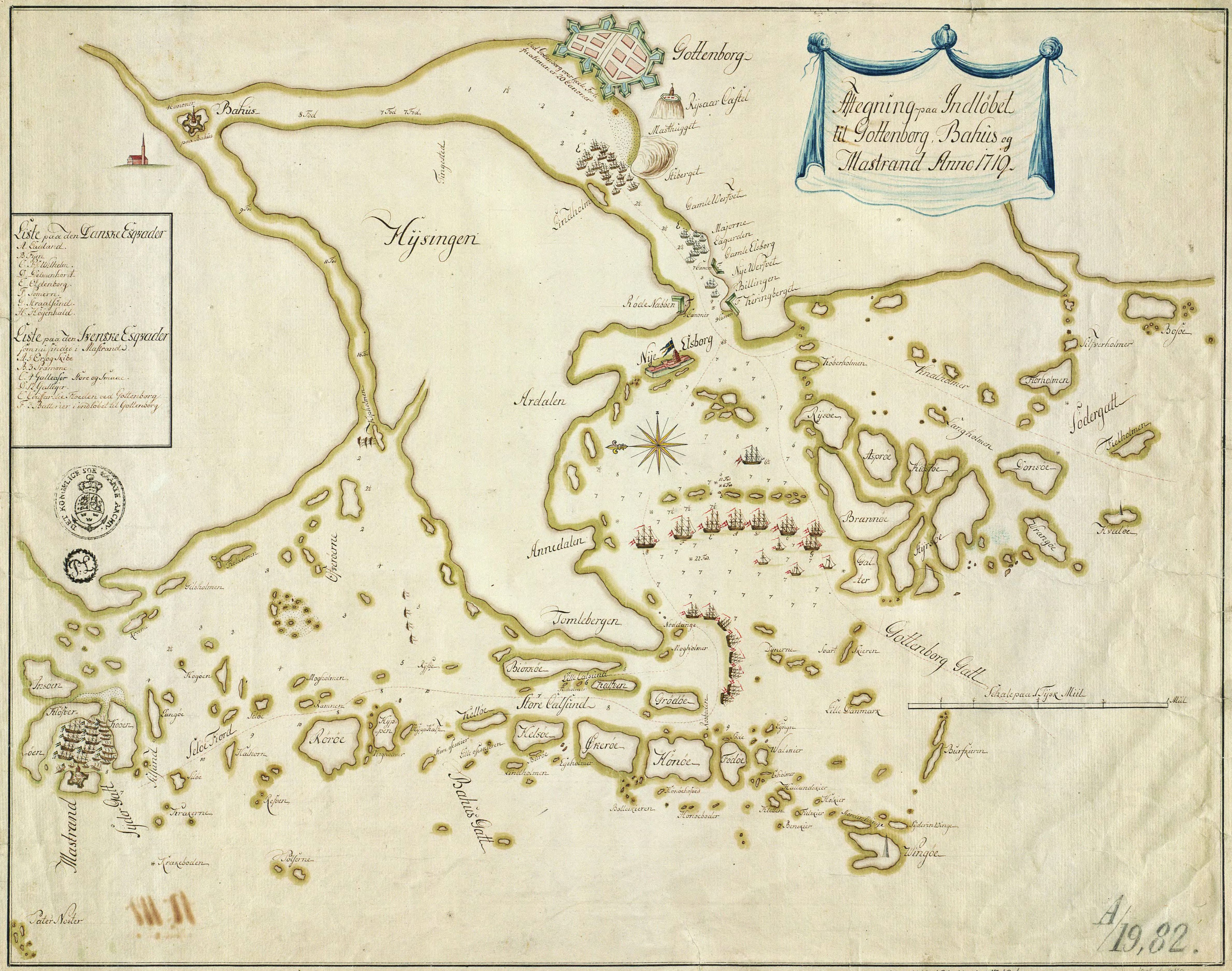 The area around Gothenburg, the island Hisingen and Marstrand in spring 1719. The inlet to Gothenburg is under blocade by Danish naval vessels.